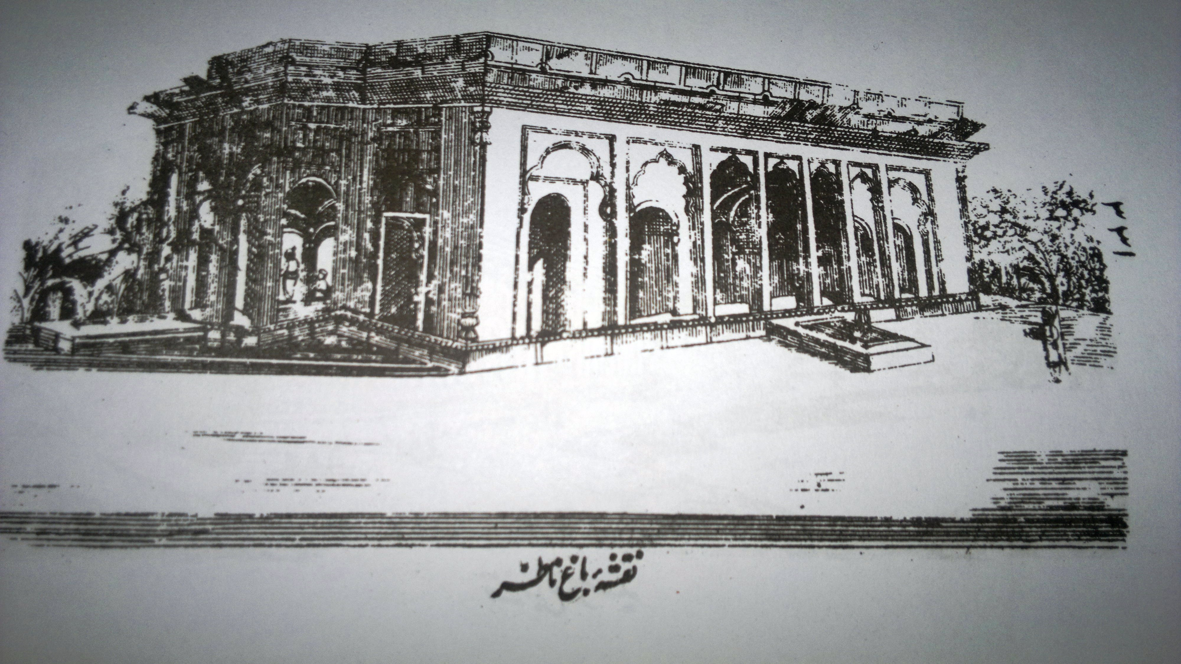 Baagh e Naazir was built by Muhammad Shah Rangila's Khwaja Sara ( Chief Eunuch) in the year 1748. this garden contained a number of pavilions, the most notable among which was made of red sandstone . Sir Syed Ahmad Khan's seminal work on the monuments of Delhi , Aasar us Sanadeed , contains a description and a sketch of the monument as it appeared in 1854.